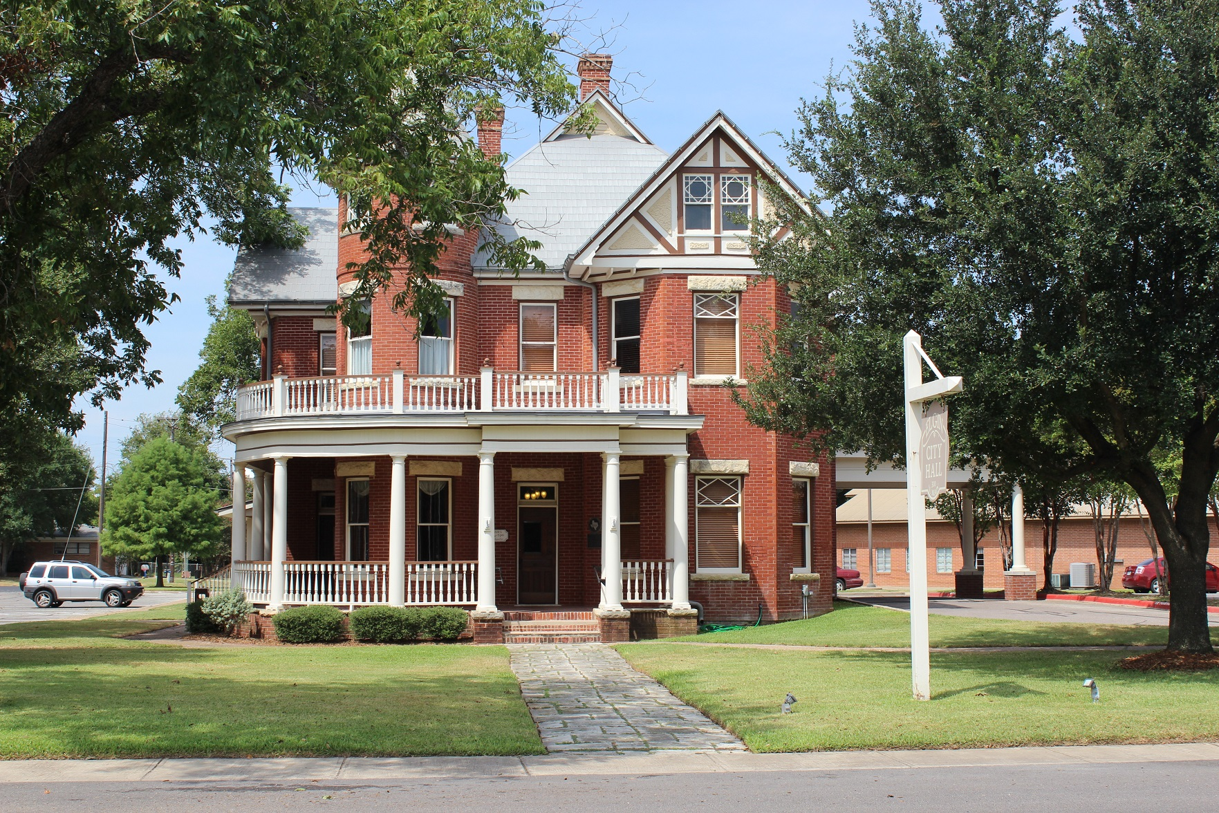 Dr. I. F. Nofsinger House. Kentucky native I. F. Nofsinger (1864 - 1938) came to Texas at the age of 20 and taught school before returning to his home state to study medicine. He was a doctor in McDade (8 mi. E) prior to moving his practice here. In 1906 he and his wife Mary (McWilliams) (d. 1934), a pharmacist, built this home, which remained in their family until 1978. Constructed of brick from a local kiln, it features Queen Anne detailing and a distinctive corner tower with a conical roof. Recorded Texas Historic Landmark - 1982 [NOTE: The correct initials for Dr. Nofsinger are I.B., not I.F., as they appear in the title and in the text. To date, no replacement marker has been ordered to make the correction.] #9214